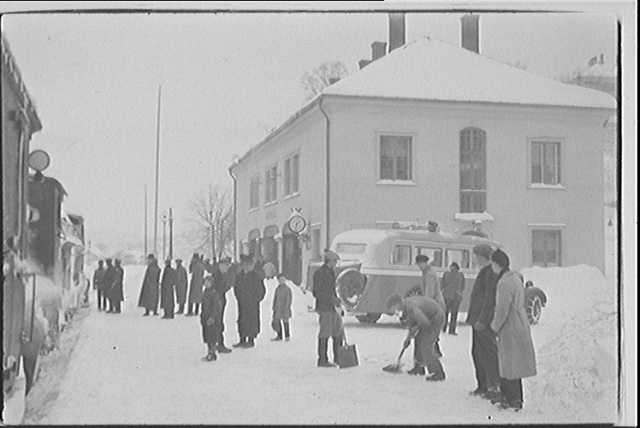 Arendal Station, then the terminus of the Sørland Line, now of the Arendal Line